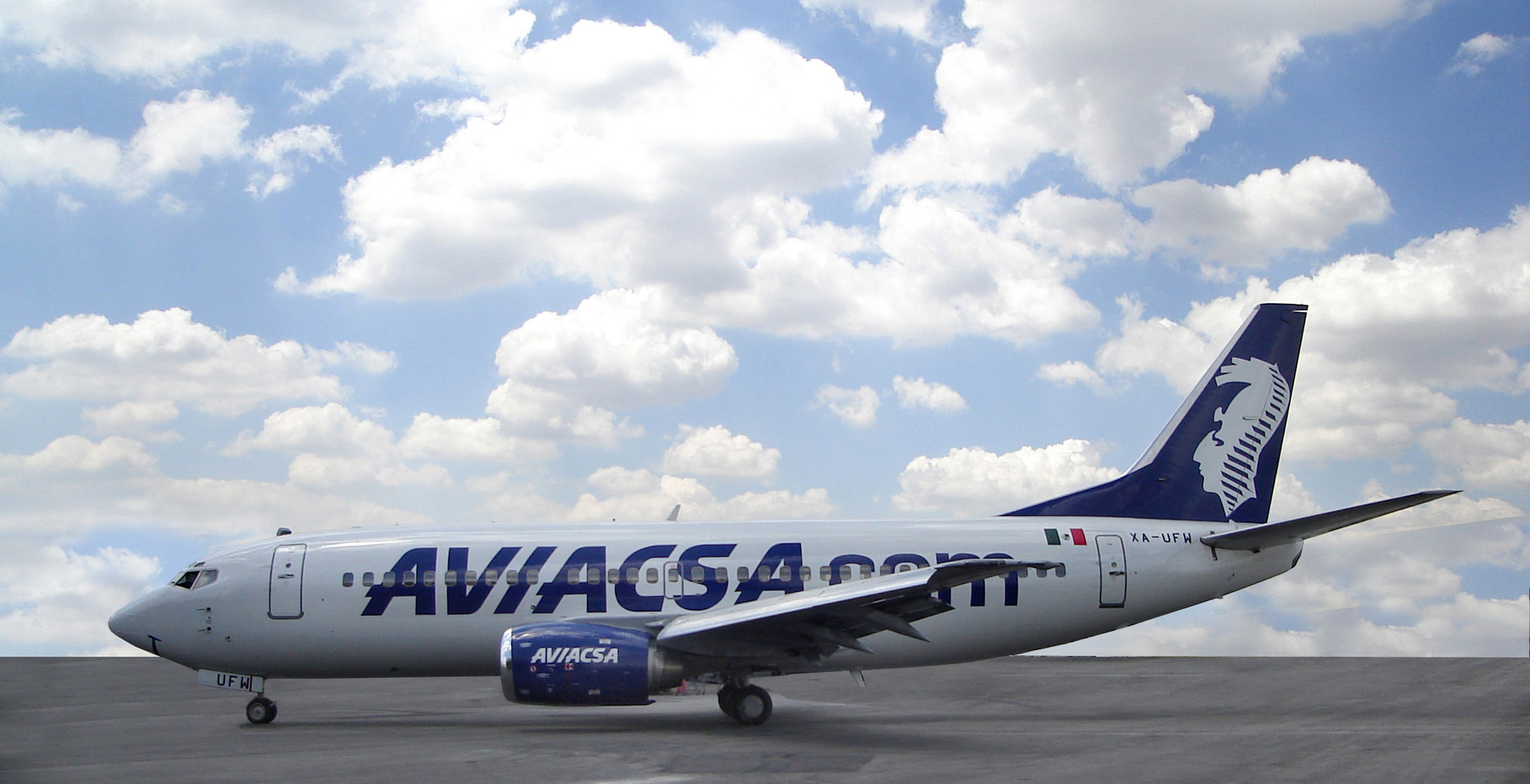 aviacsa's airplane